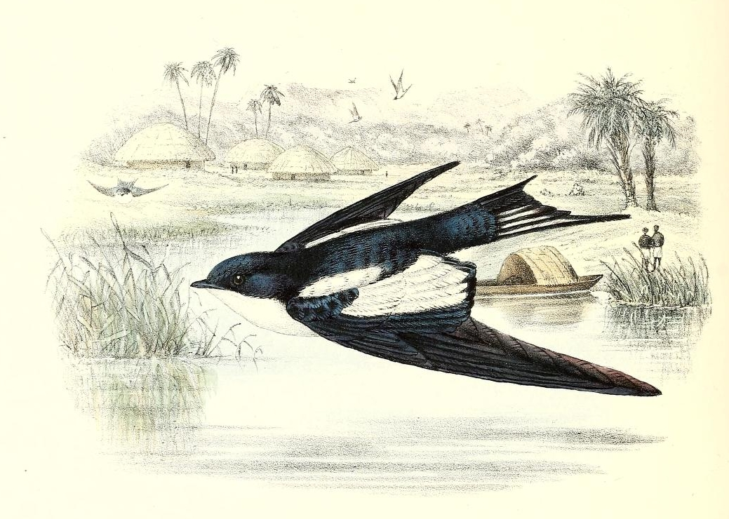 Hirundo leucosoma in flight